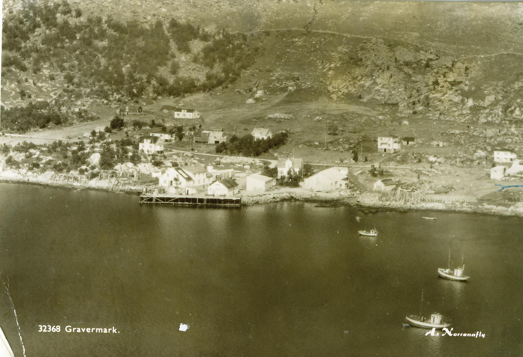 Photo of shop and fishery in Gravermark, Norway during 1950s